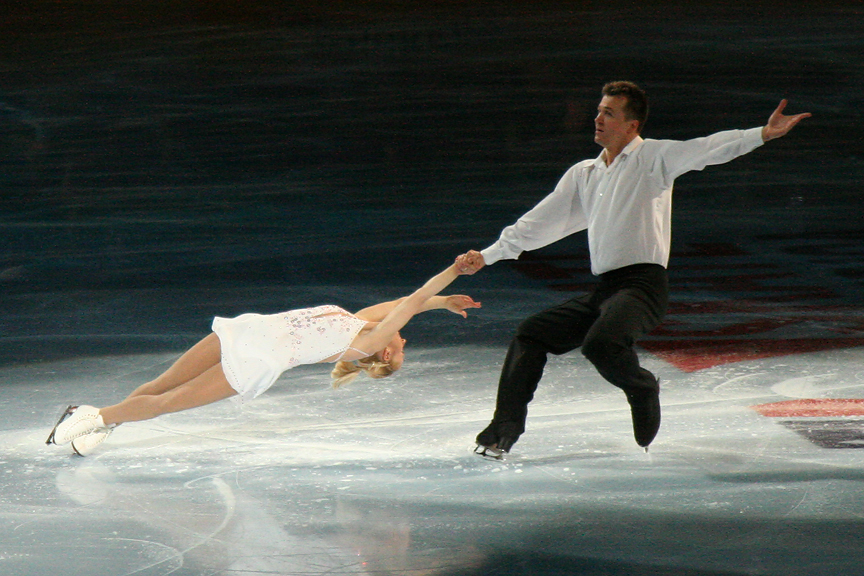 Dorota Siudek (née: Zagórska) and Mariusz Siudek perform a death spiral during the 2006 Skate America exhibition.